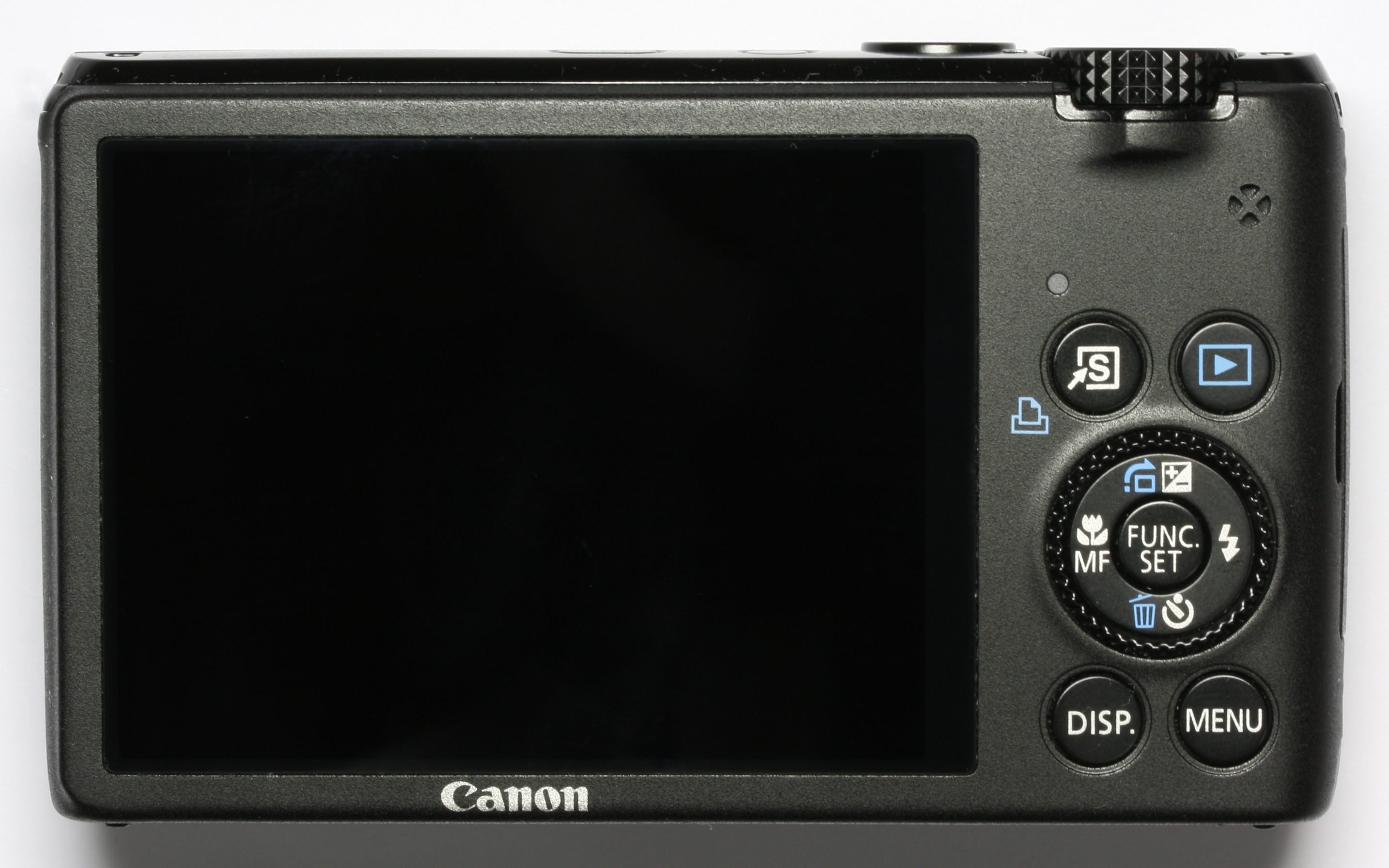 The back side of a Canon PowerShot S95